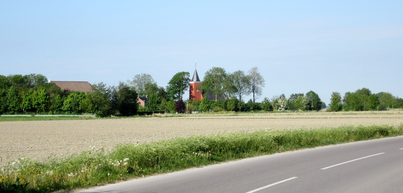 View of the village of Boer, Franekeradeel, Friesland, the Netherlands, as seen from the direction of Doanjum (Dongjum).